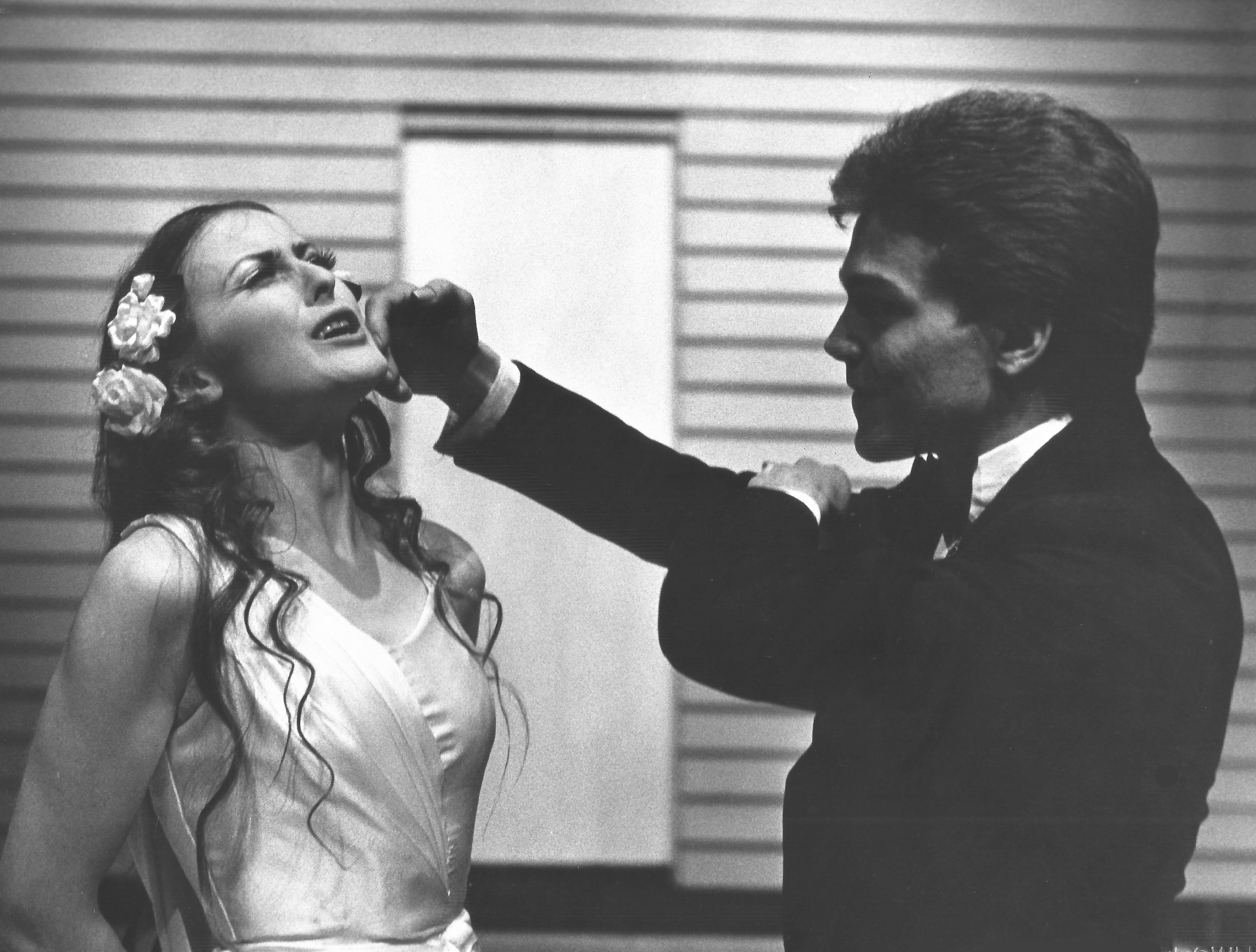 John Breck in the Citizens' Company production of No Orchids For Miss Blandish by James Hadley Chase. Photograph by John Vere Brown by kind permission of the Citizens Theatre.